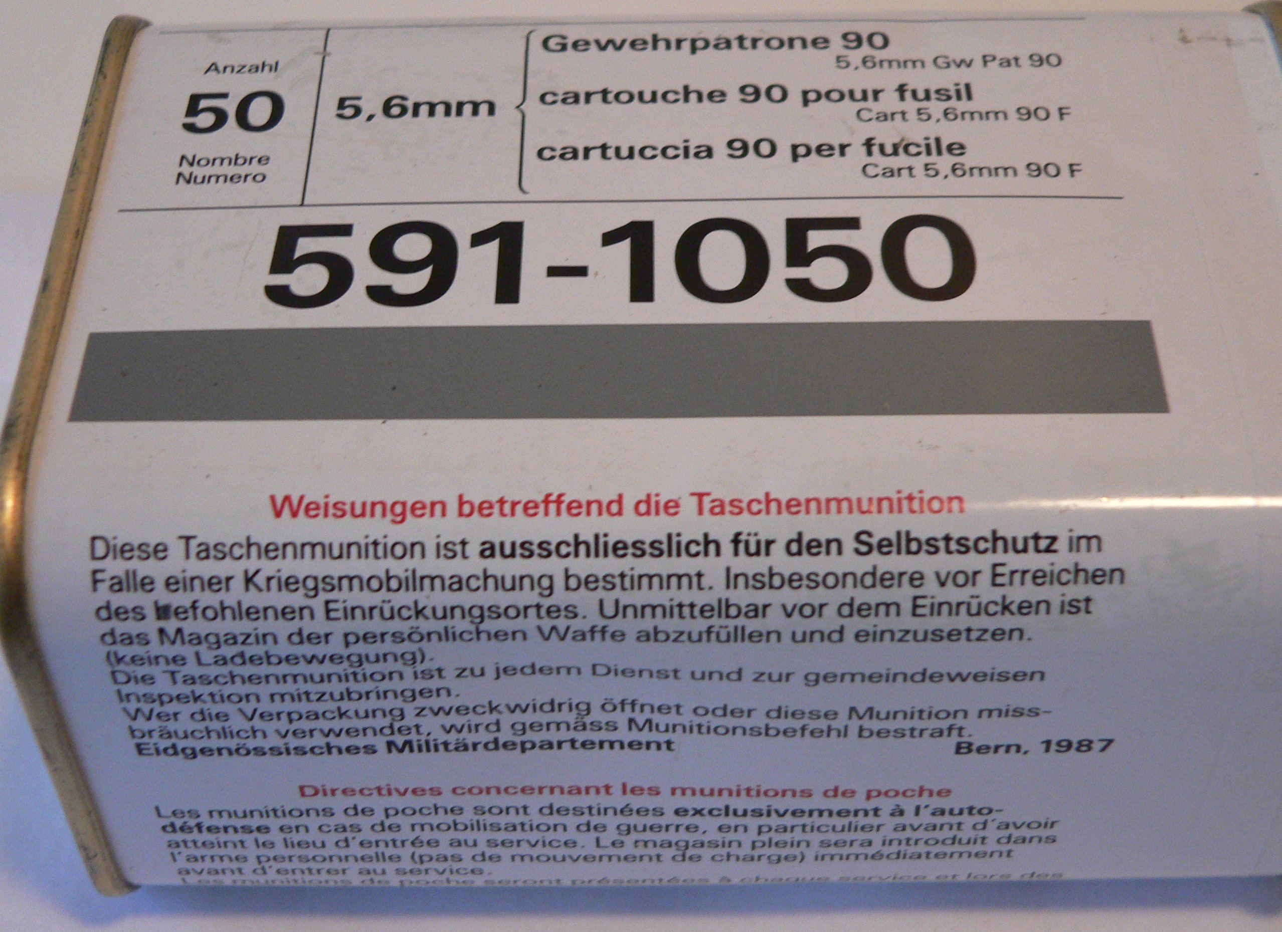 Ready self-defence ammunition of the Swiss Army. Every soldier equipped with the SIG SG 550 assault rifle used to be issued 50 rounds of ammunition in a sealed box, to be opened only upon alert. The ammunition was to load into the rifle magazine for use by the militiaman should any needs arise while he was en route to join his unit. Any other use than this, or even unsealing was strictly forbidden. This practice was stopped in 2007 due to safety concerns.